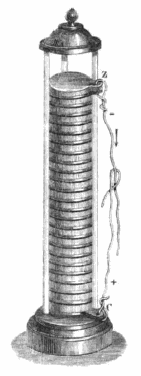 Drawing of Alessandro Volta's voltaic pile, invented in 1800, the first electric battery. It was built of many individual cells, each consisting of a disk of copper and a disk of zinc or silver separated by a disk of cloth soaked in acid or brine. A 23 cell pile like this would have produced around 36 volts. Alterations: removed caption.